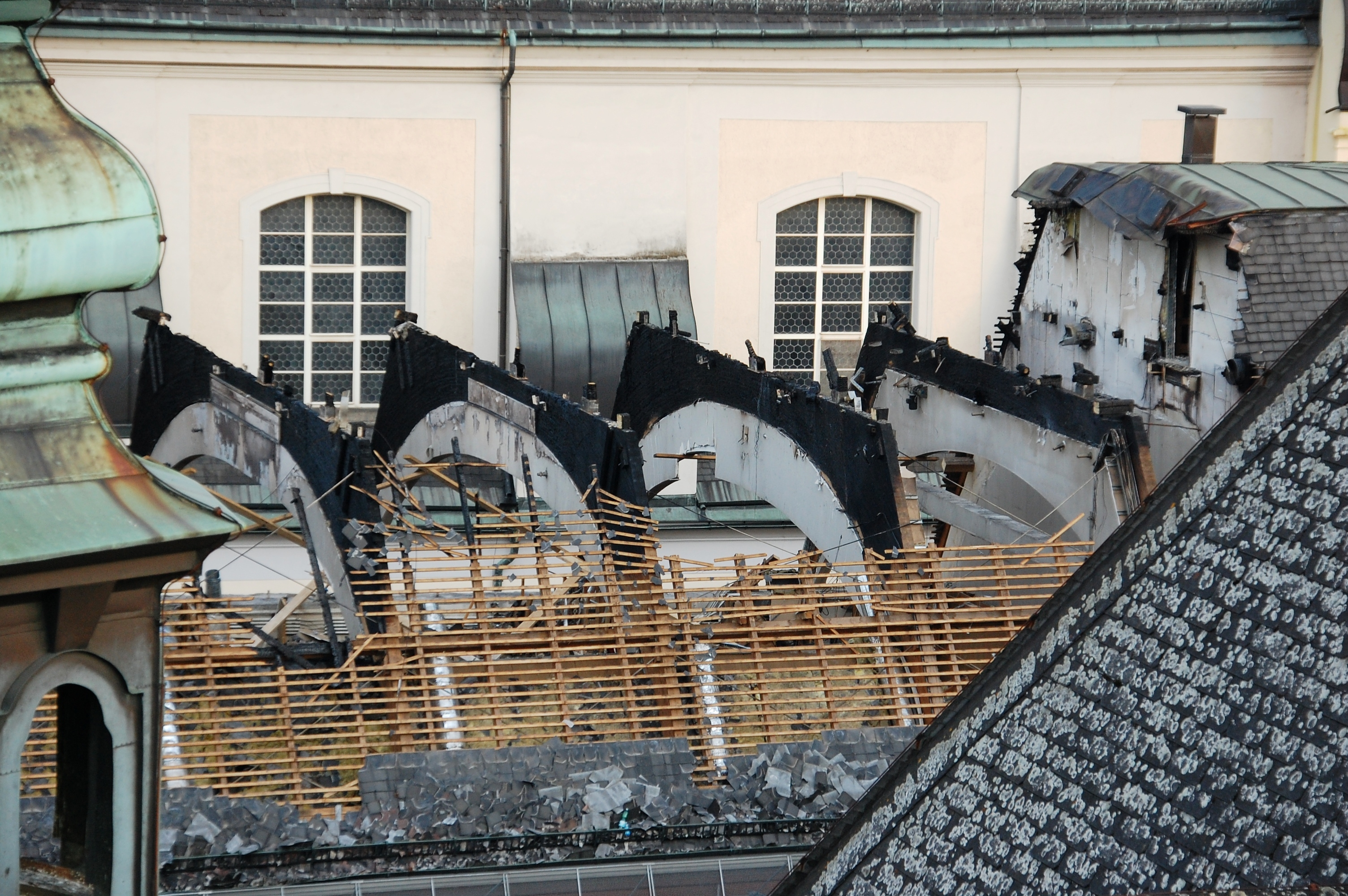 The roof of the Ursulinenhof in Linz, Austria, after the major fire from 2009-06-03